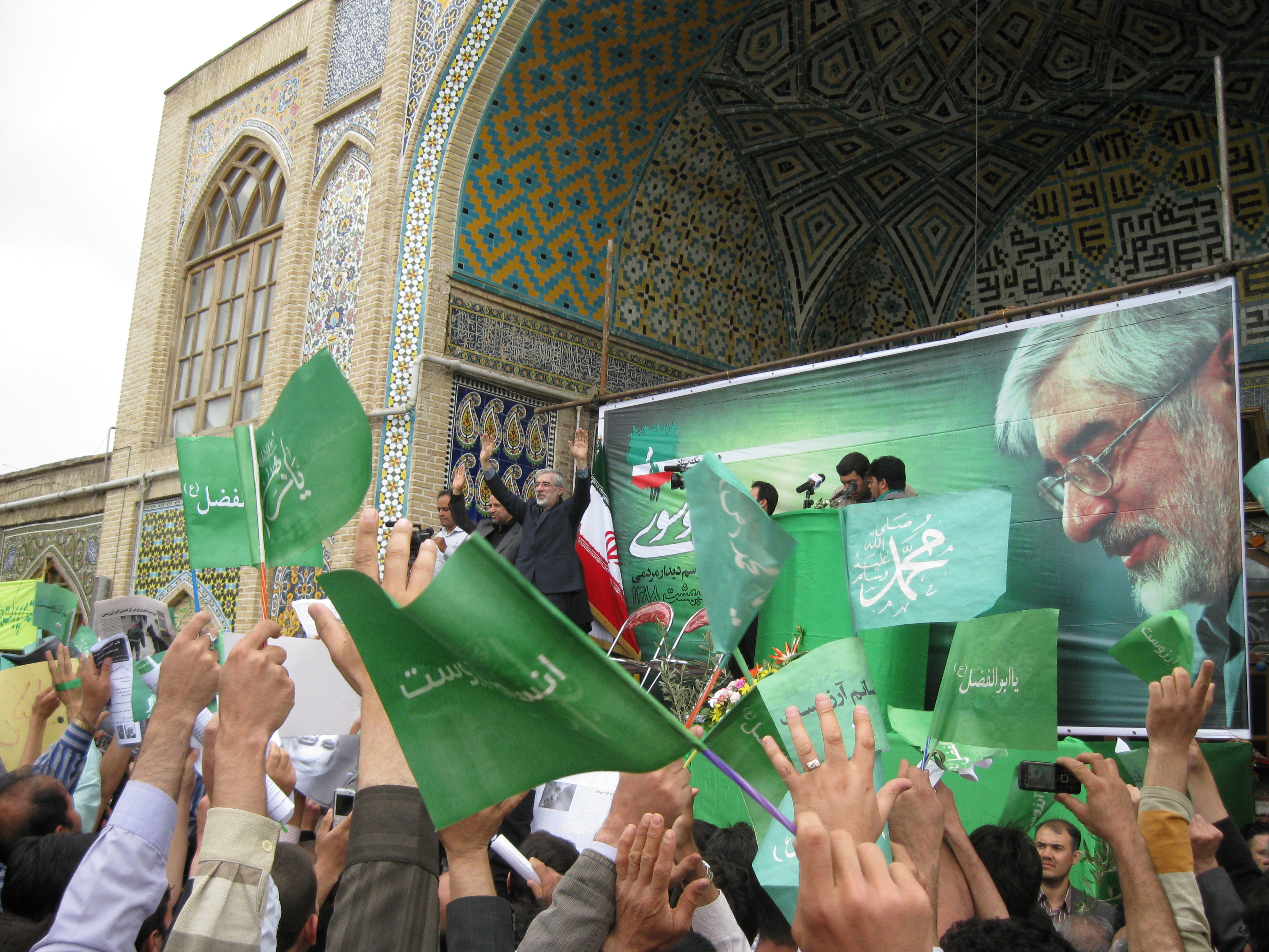 Mir-Hossein Mousavi iranian former prime minister in Zanjan